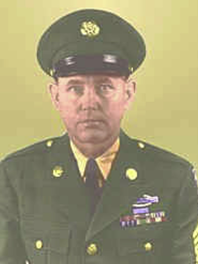 William Crawford, US Army color photo, Medal of Honor winner from World War II